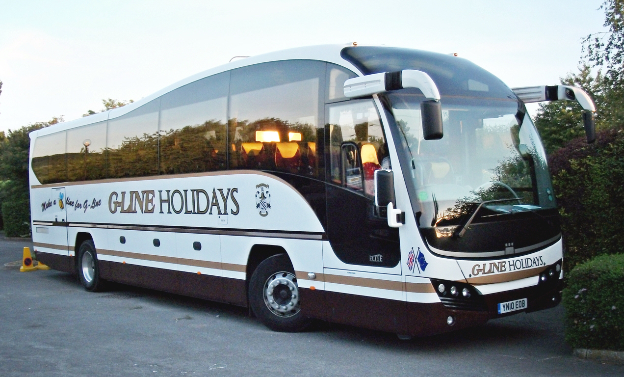 G-Line coach (reg. YN10 EOB), a Volvo B9R single-decker with Plaxton Elite bodywork.